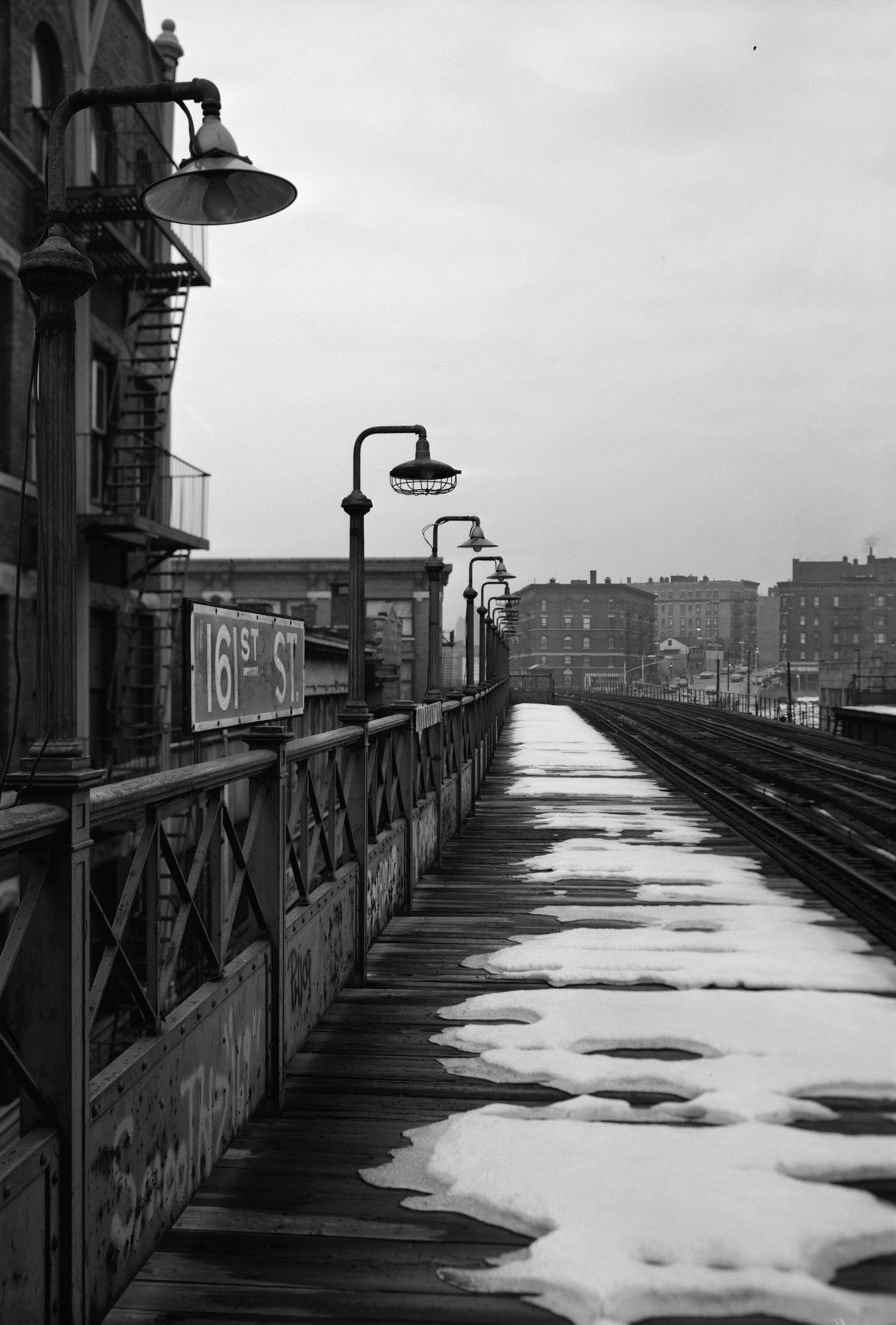 The 161st Street Station on the former Interborough Rapid Transit Third Avenue Line looking in the Bronx before the line was dismantled. Note the sign denoting 161st Street to the left.